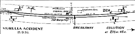 Murulla station track diagram